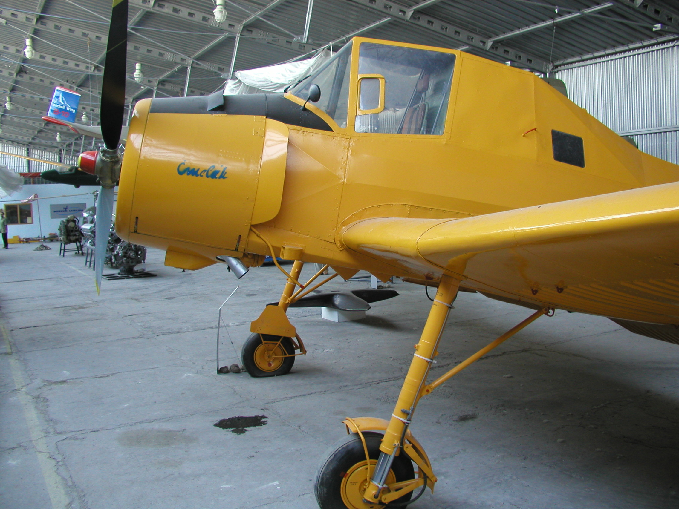 Z-37 Cmelak agricultural aircraft